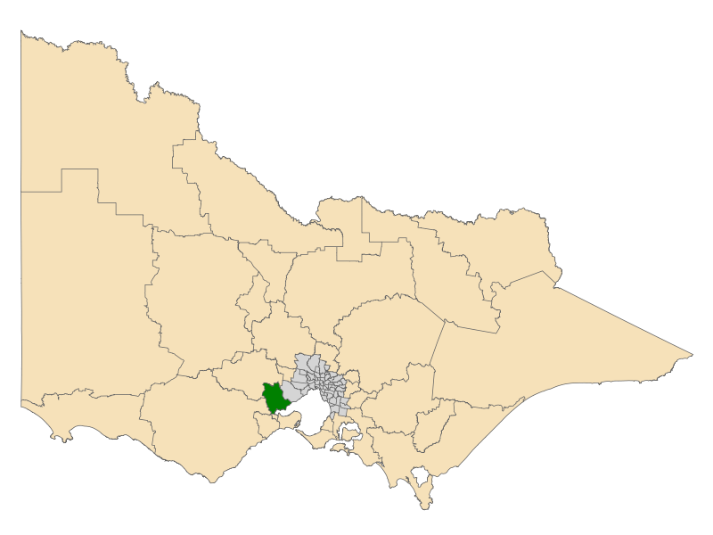 Location of the Electoral District of Lara (dark green) in the state of Victoria, Australia. These boundaries were used for the Victorian state election on 29 November 2014.